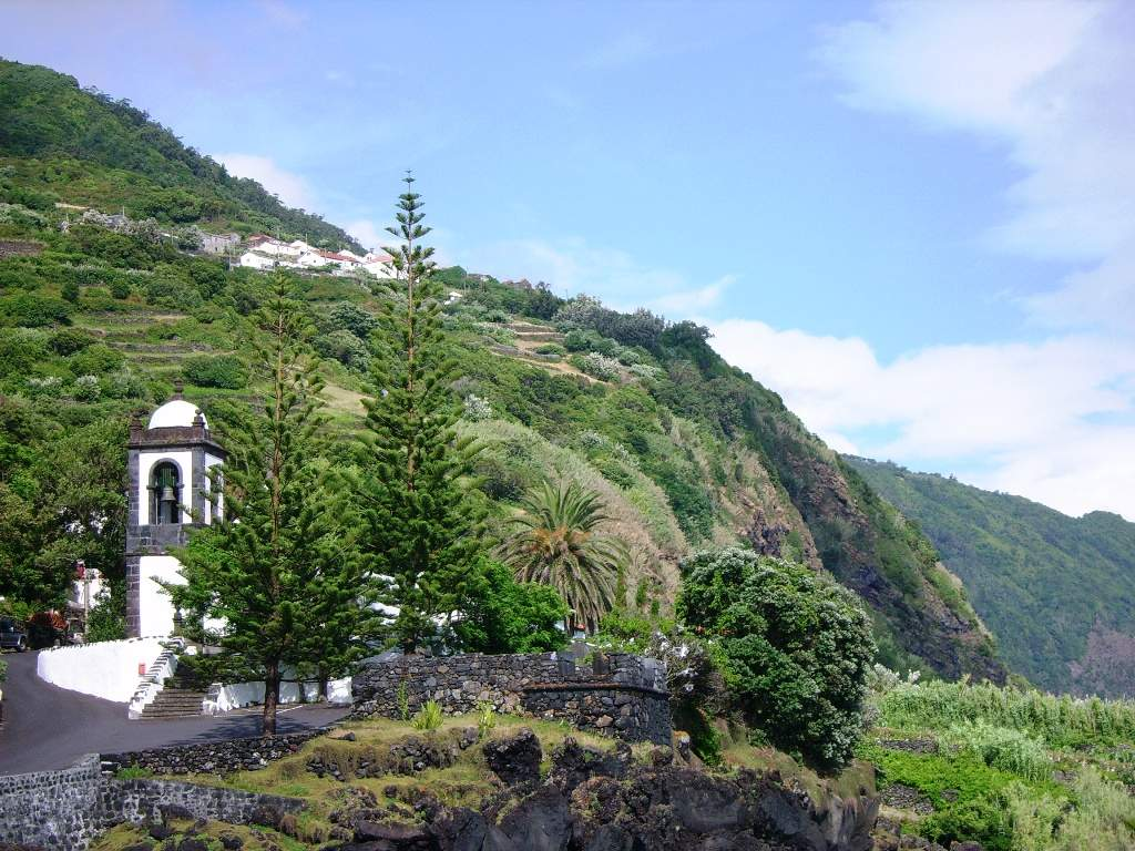 Partial view of the Church of Santa Bárbara in Manadas, Velhas, island of São Jorge, Azores (Portugal), with the remnants of the Fort of Manadas in the foreground.